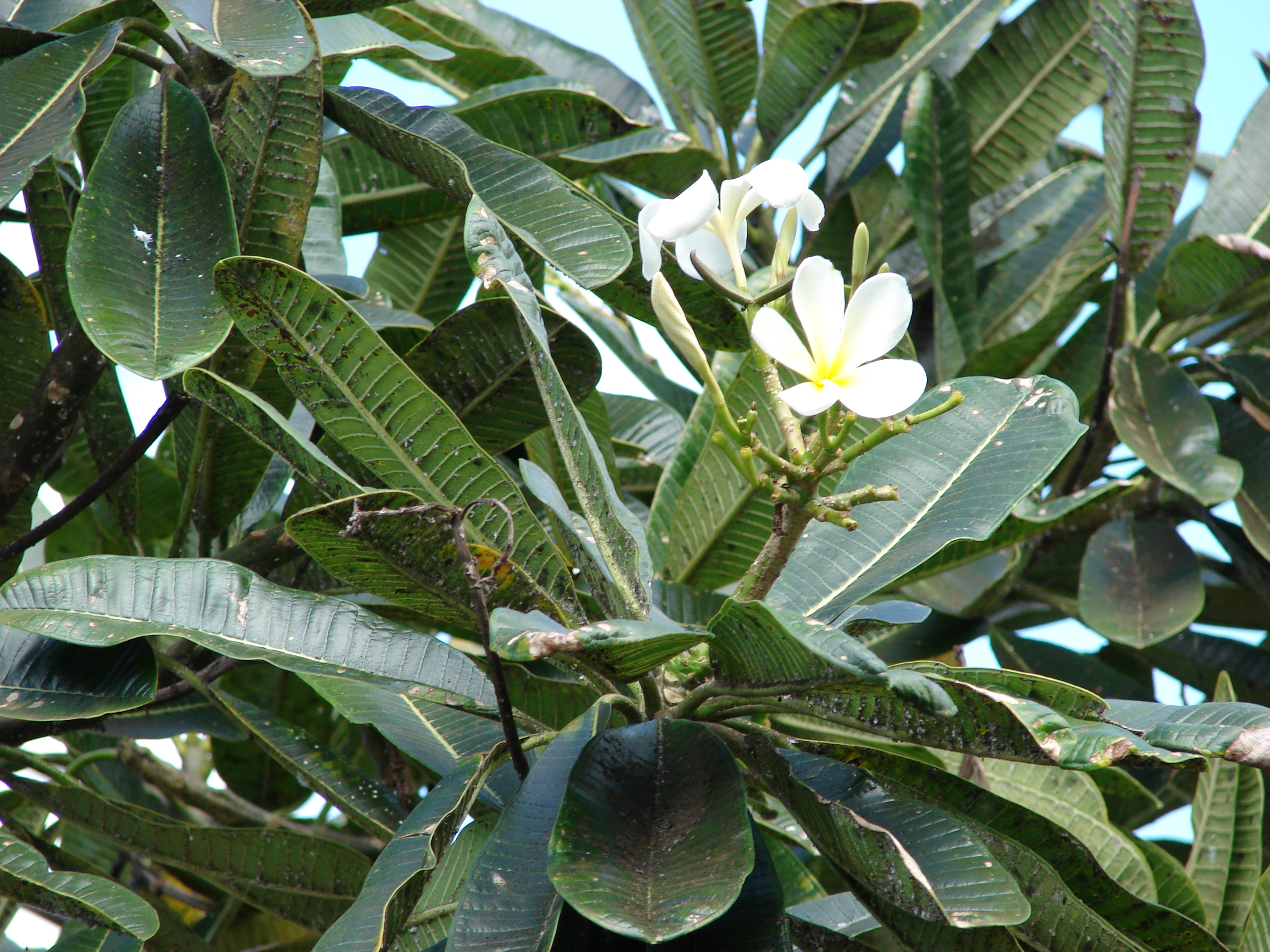 Plumeria obtusa (flowers and leaves). Location: Maui, Kihei